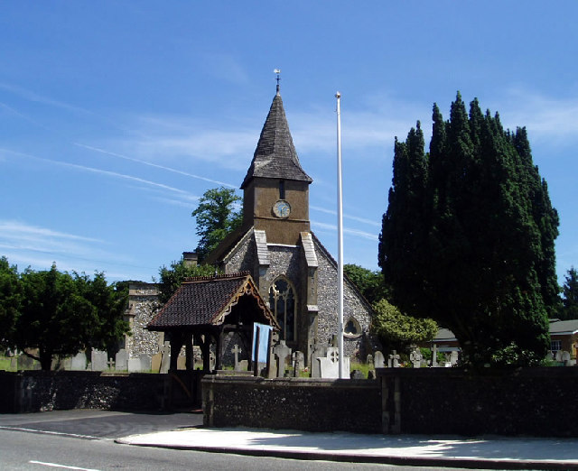 All Saints parish church, Addintgon Road, Sanderstead, London (formerly Surrey), seen from the west